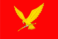 Flag of Timashëvsk